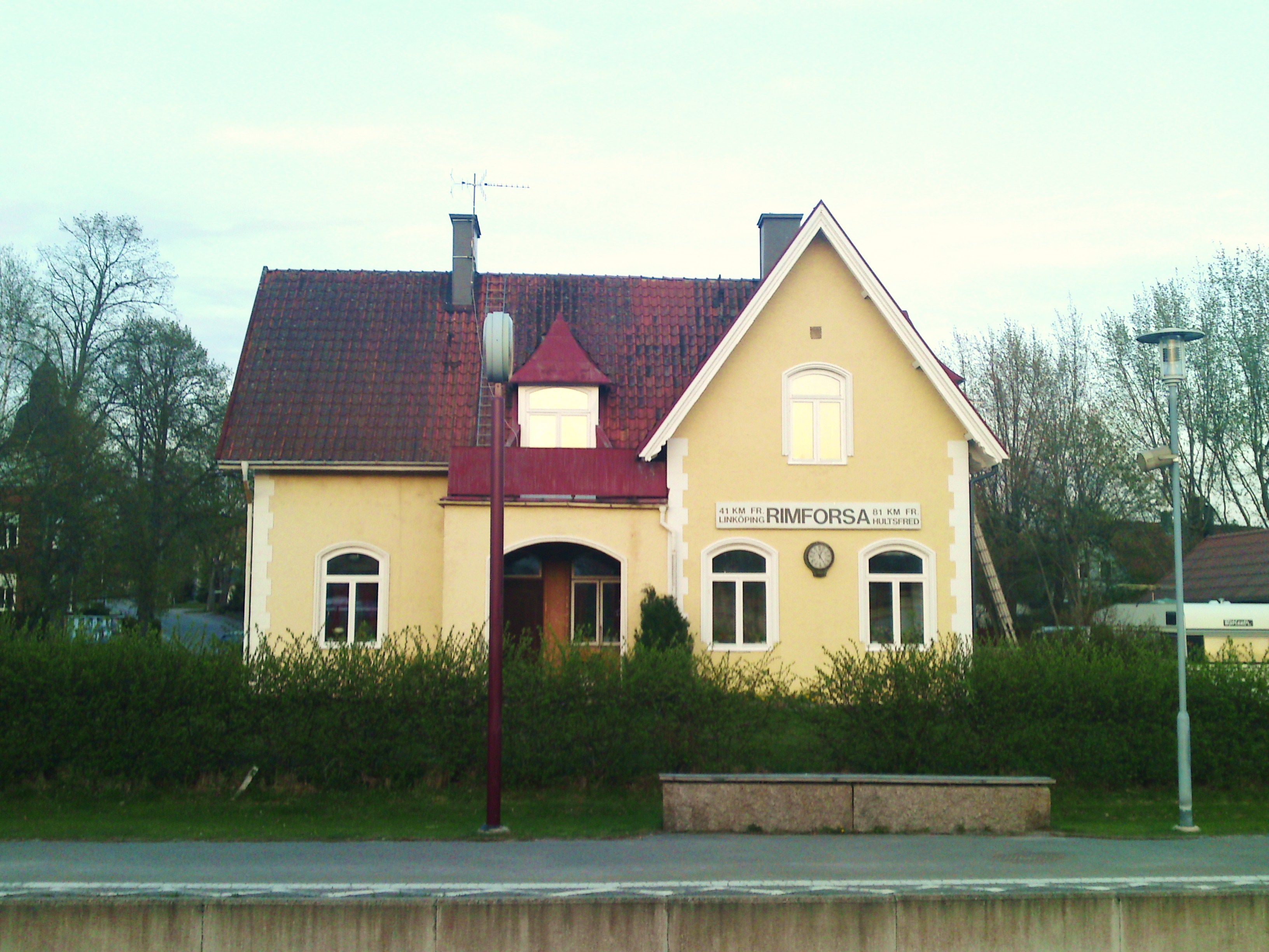 Rimforsa station, Östergötland, Sweden